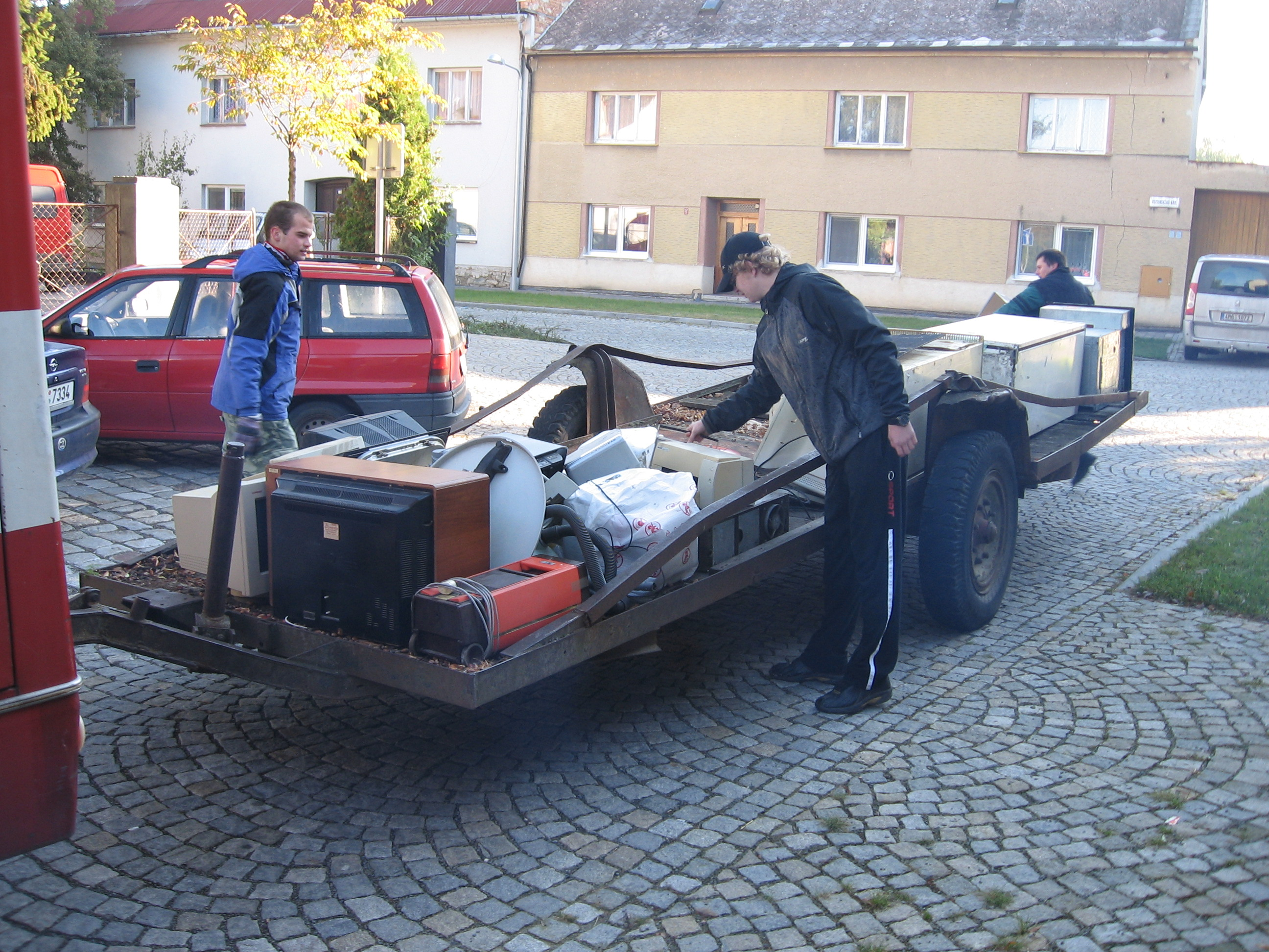 Sběr elektro II, Němčice nad Hanou, Komenského nám. 38 a 39.